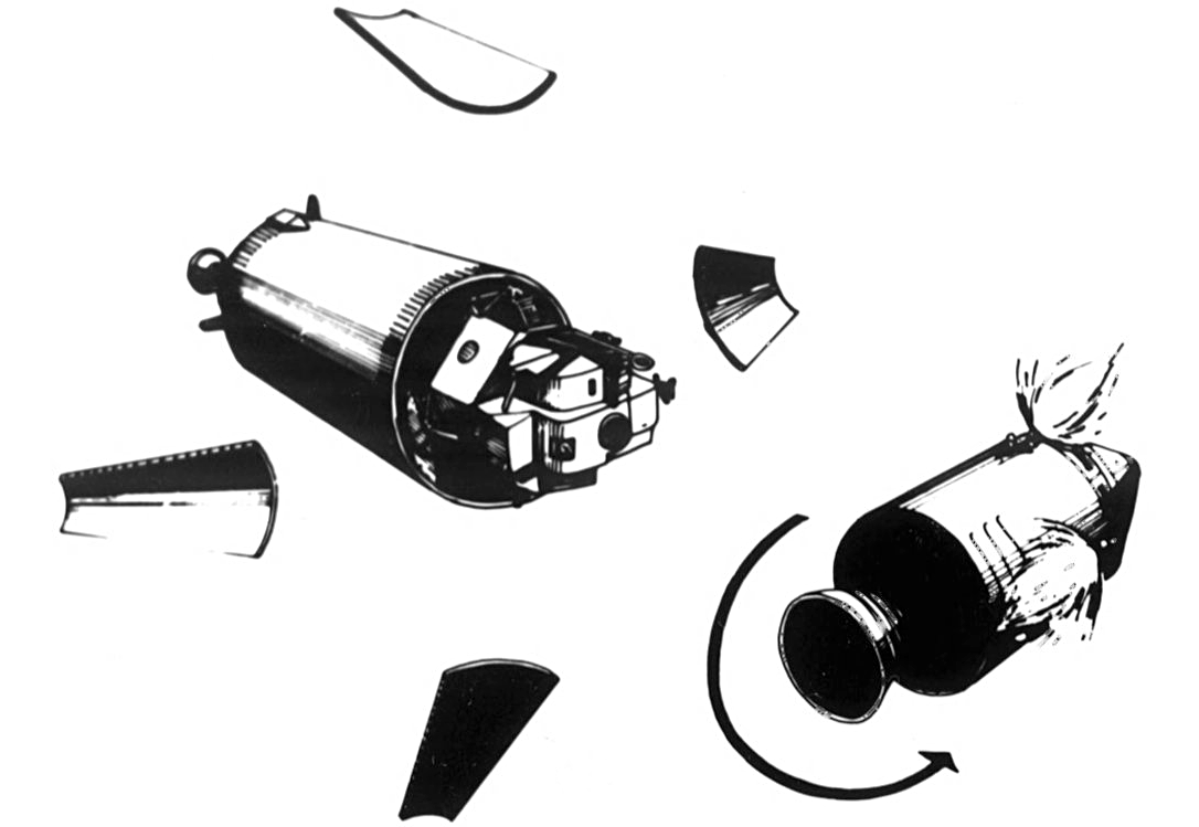 Apollo 11 flight, artist concept. Panels housing the LM are jettisoned and the CM turned 180 degrees in a transposition maneuver